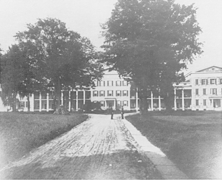 The National Institutes of Health began as a single room Laboratory of Hygiene for bacteriological investigation established by the U.S, Marine Hospital Service at Stapleton, Staten Island, New York, in 1887. From 1887 to 1891 the Laboratory was located in the attic of the Marine Hospital on Staten Island, which had been the Seaman's Retreat until leased by the Federal Government in 1883 and made part of the Marine Hospital Service. The building that housed the Laboratory still stands and is part of the Bayley Seton Hospital.